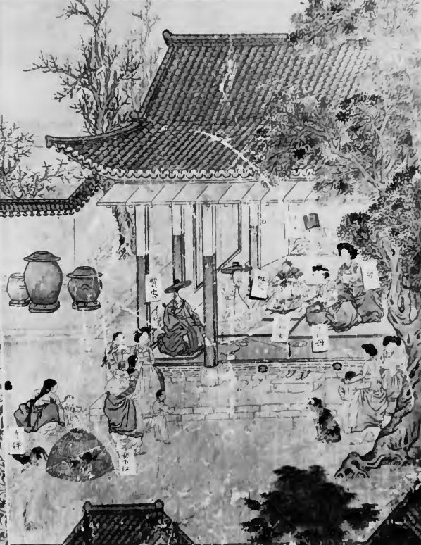 A scene from "A Pictorial Biography of Hong Yi-sang." This is a mere photographical reproduction of a two-dimensional historical work of art which copyright has expired due to its age (created in 1781). The work of art is located in the National Museum of Korea, in Seoul